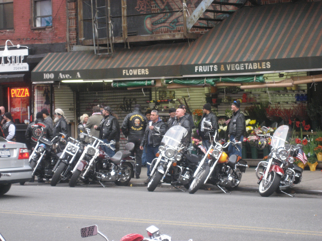 On Avenue A Between 6th and 7th Streets on November 16, 2008